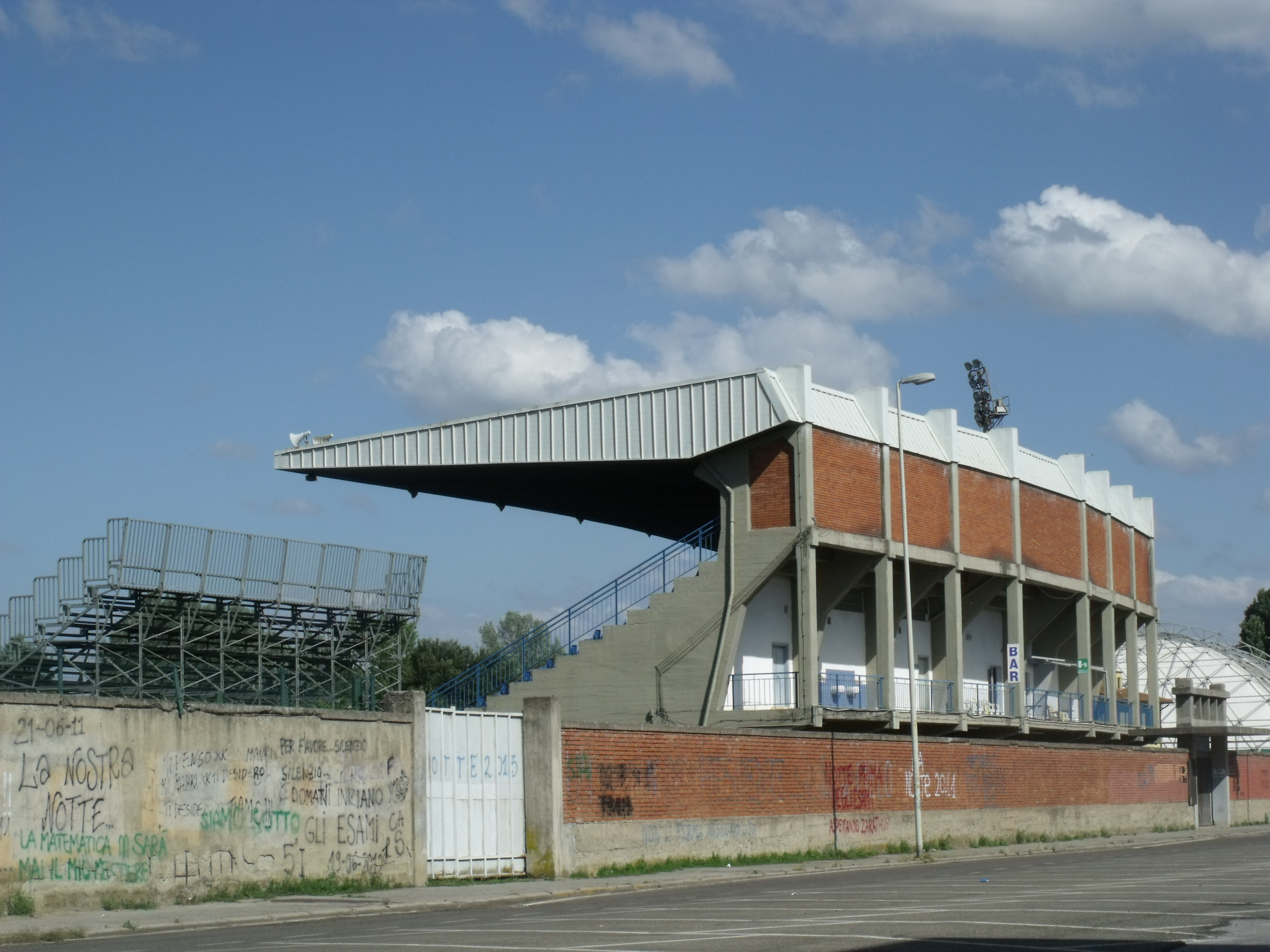 Stadium Stadio Comunale Virgilio Fedini in San Giovanni Valdarno, Province of Arezzo, Tuscany, Italy